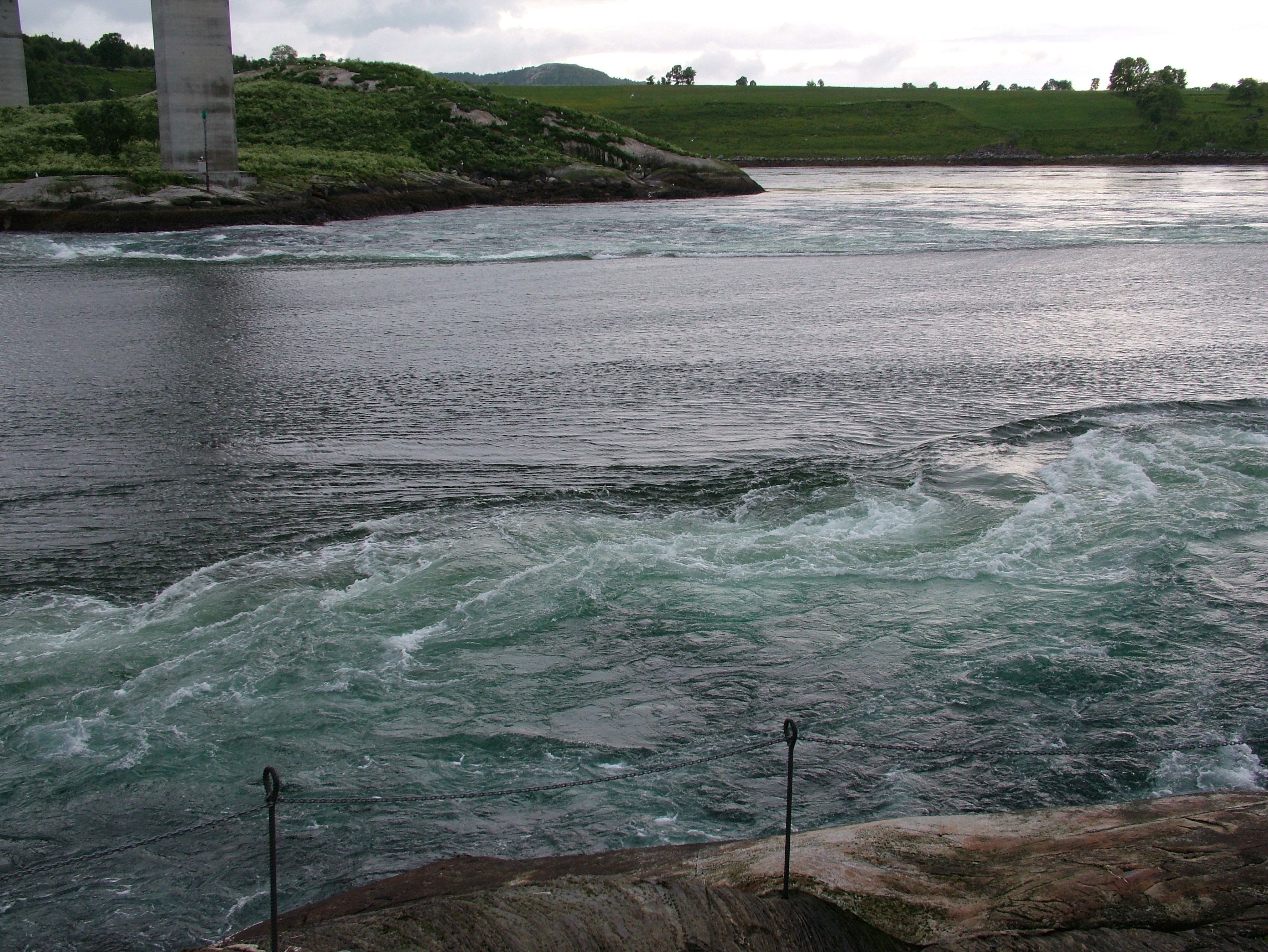 The tidal current at Saltstraumen, near Bodø, Norway, in June 2005. Two piers of the highway 17 bridge are visible on the far side.